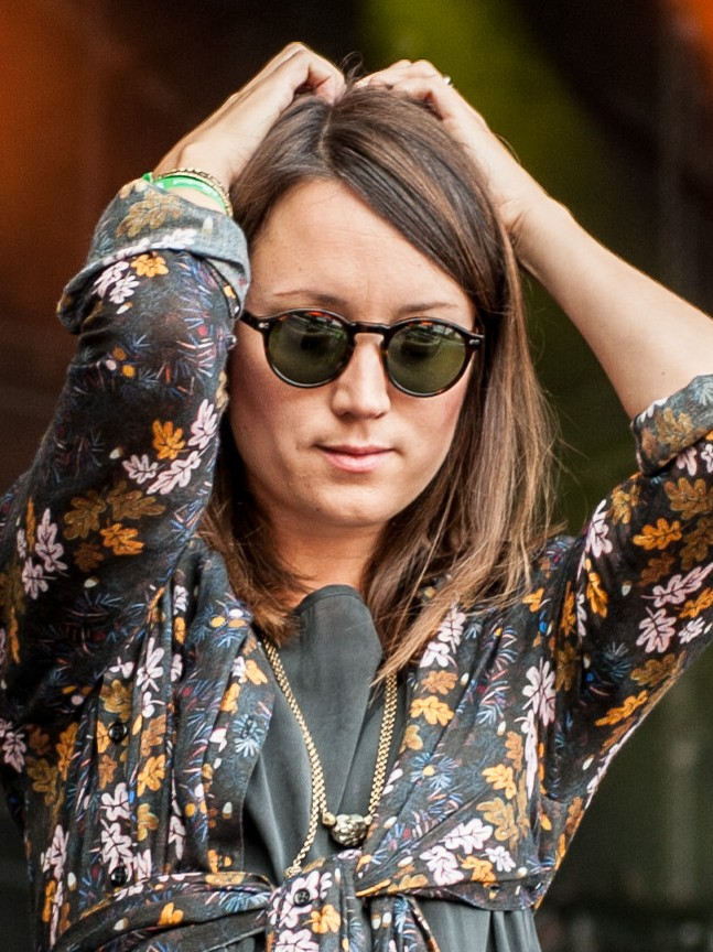 Taken by Trees (Victoria Bergsman) at Popaganda 2013 in Stockholm, Sweden